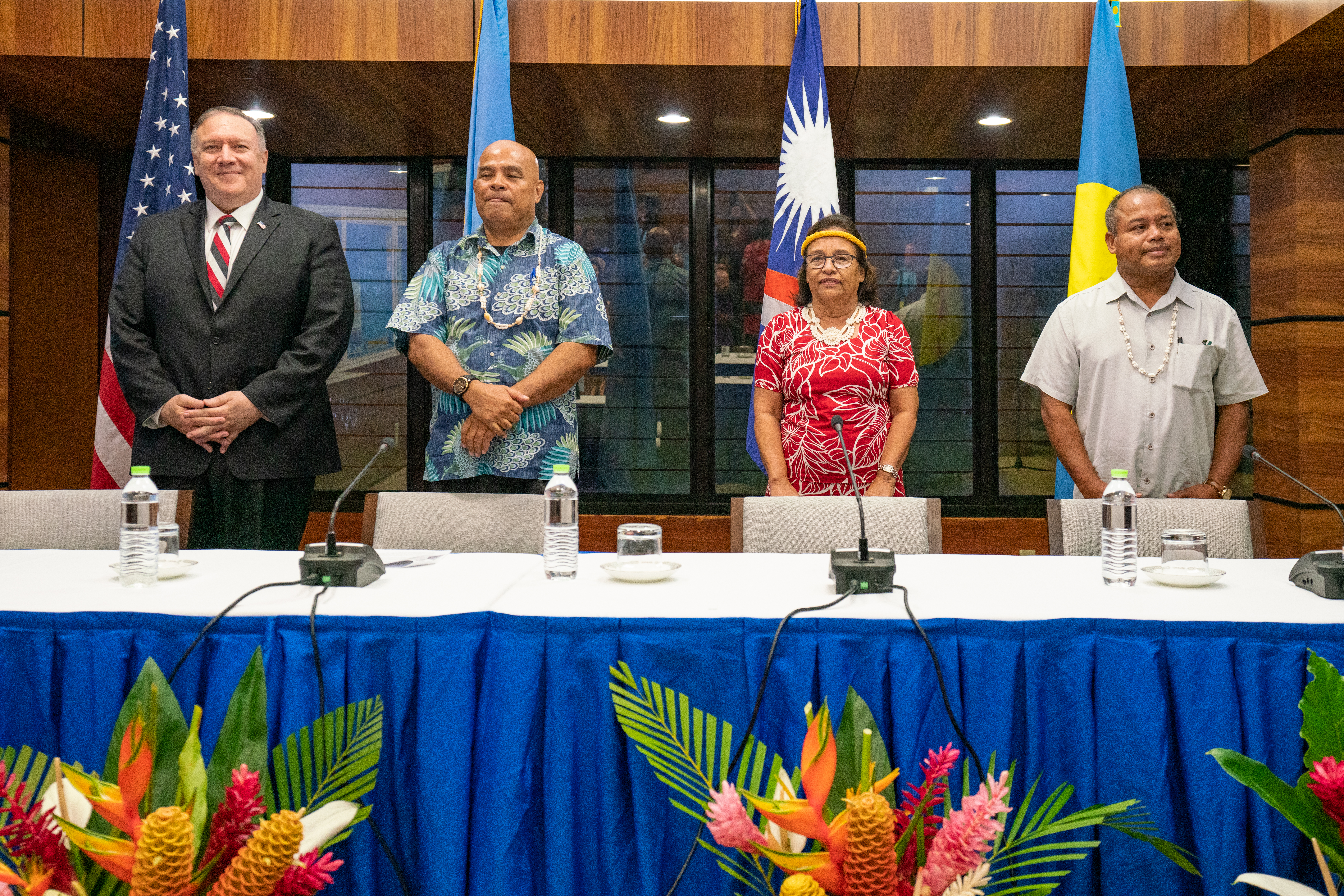 U.S. Secretary of State Michael R. Pompeo holds a joint press availability with Micronesia President David Panuelo, Marshallese President Hilda Heine, and Palauan Vice President Raynold B. Oilouch, in Kolonia, Federated States of Micronesia, on August 5, 2019. [State Department Photo by Ron Przysucha/ Public Domain]